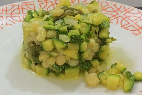 Mexican tradicional dish made with zucchini and maize